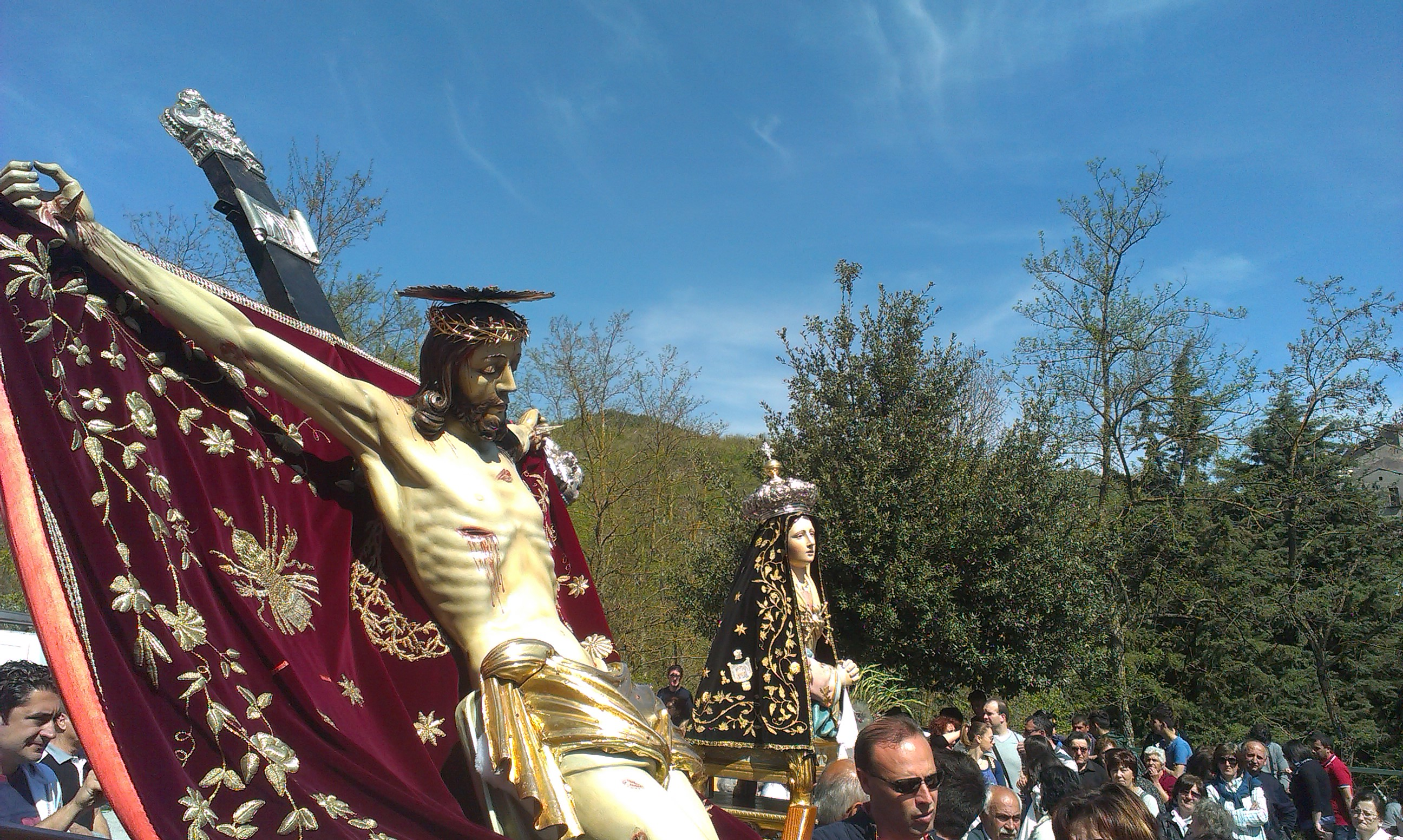 Le Statue del SS Crocifisso e della Madonna Addolorata